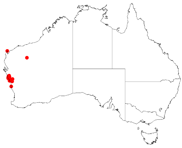 Scaevola oldfieldii occurrence data downloaded from Australasian Virtual Herbarium 12 May 2019